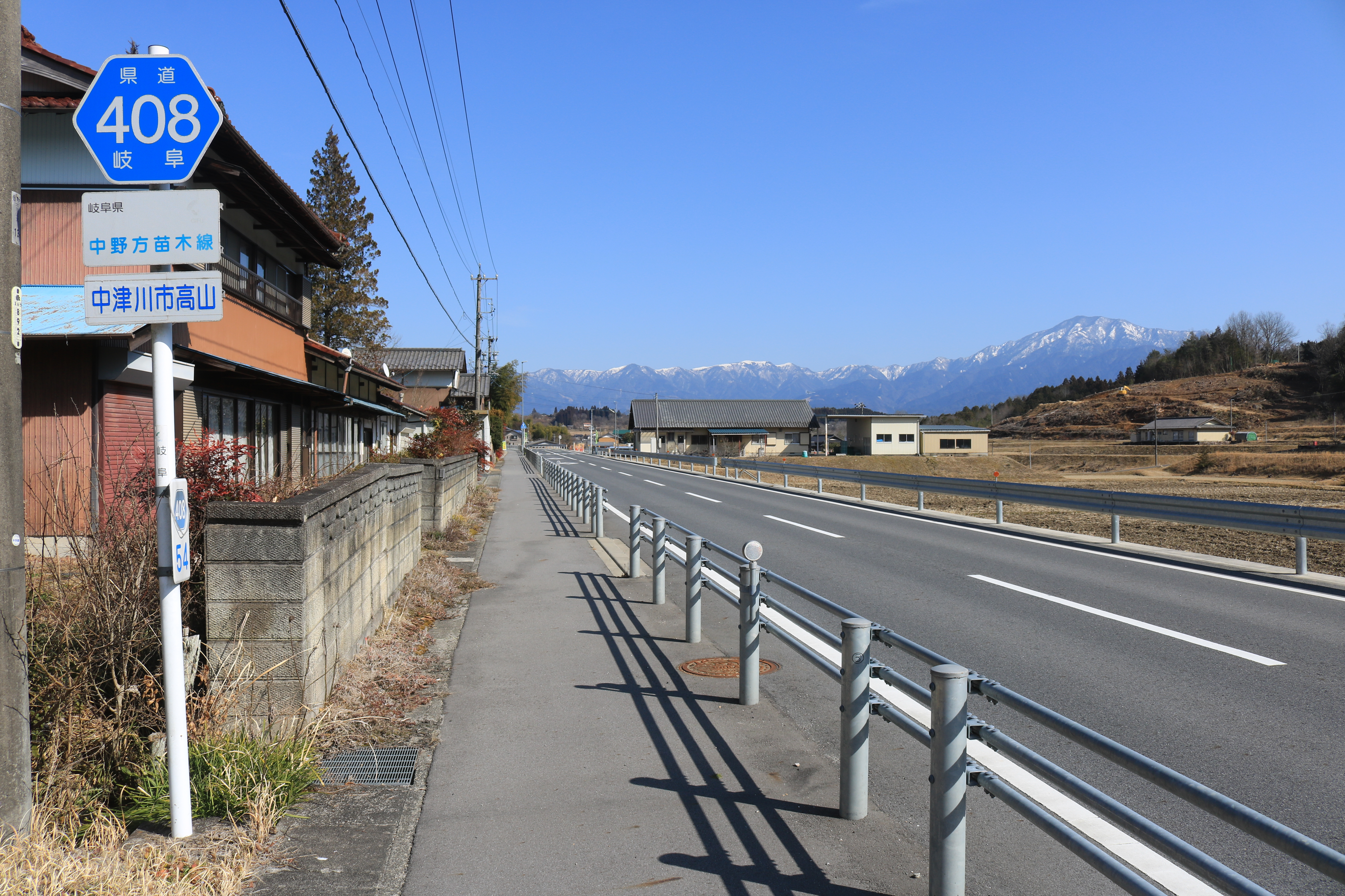 Gifu Prefectural Road Route 408 and Mount Ena in Takayama, Nakatsugawa, Gifu prefecture, Japan.